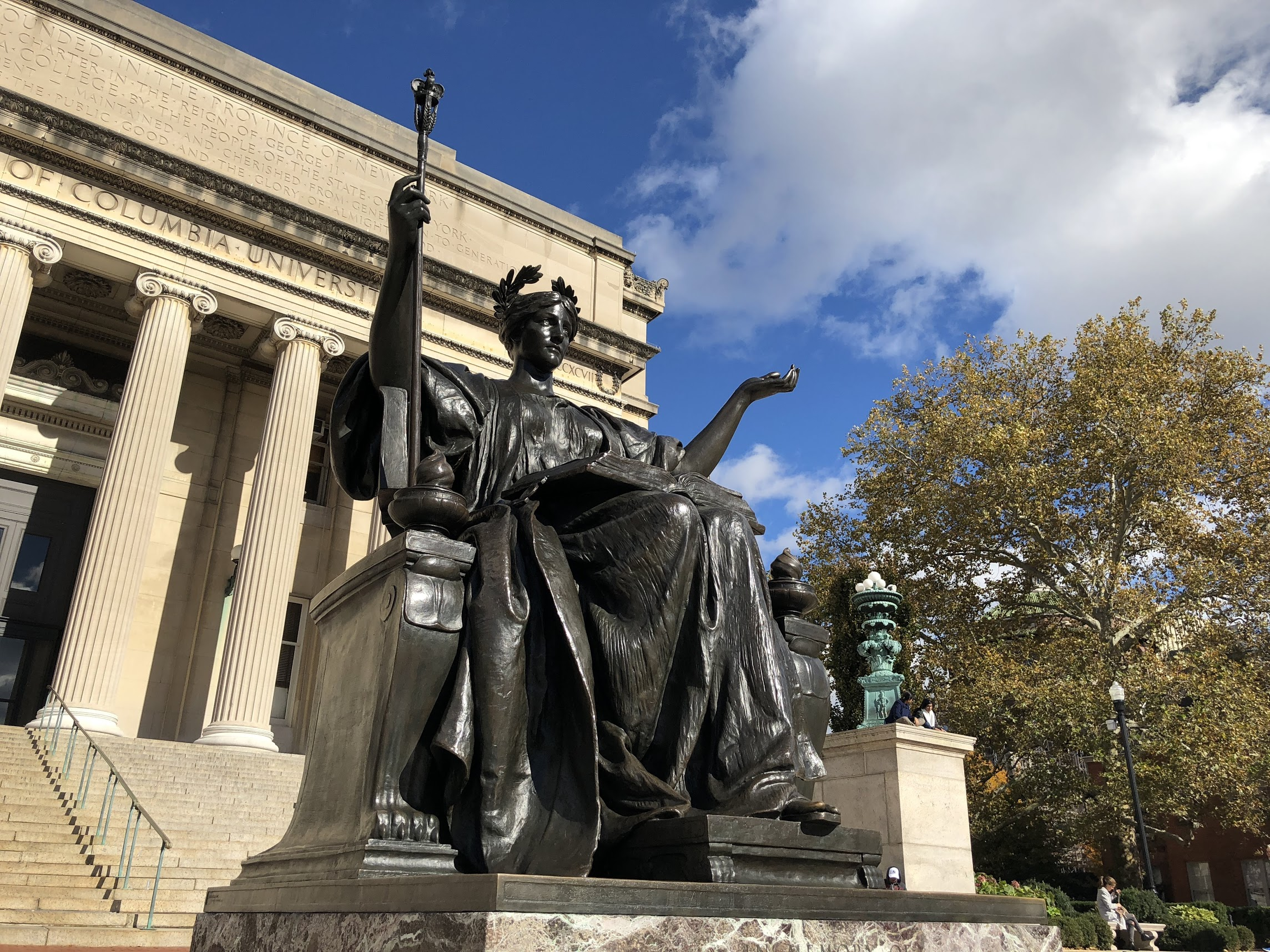 Alma mater statue, Columbia University.